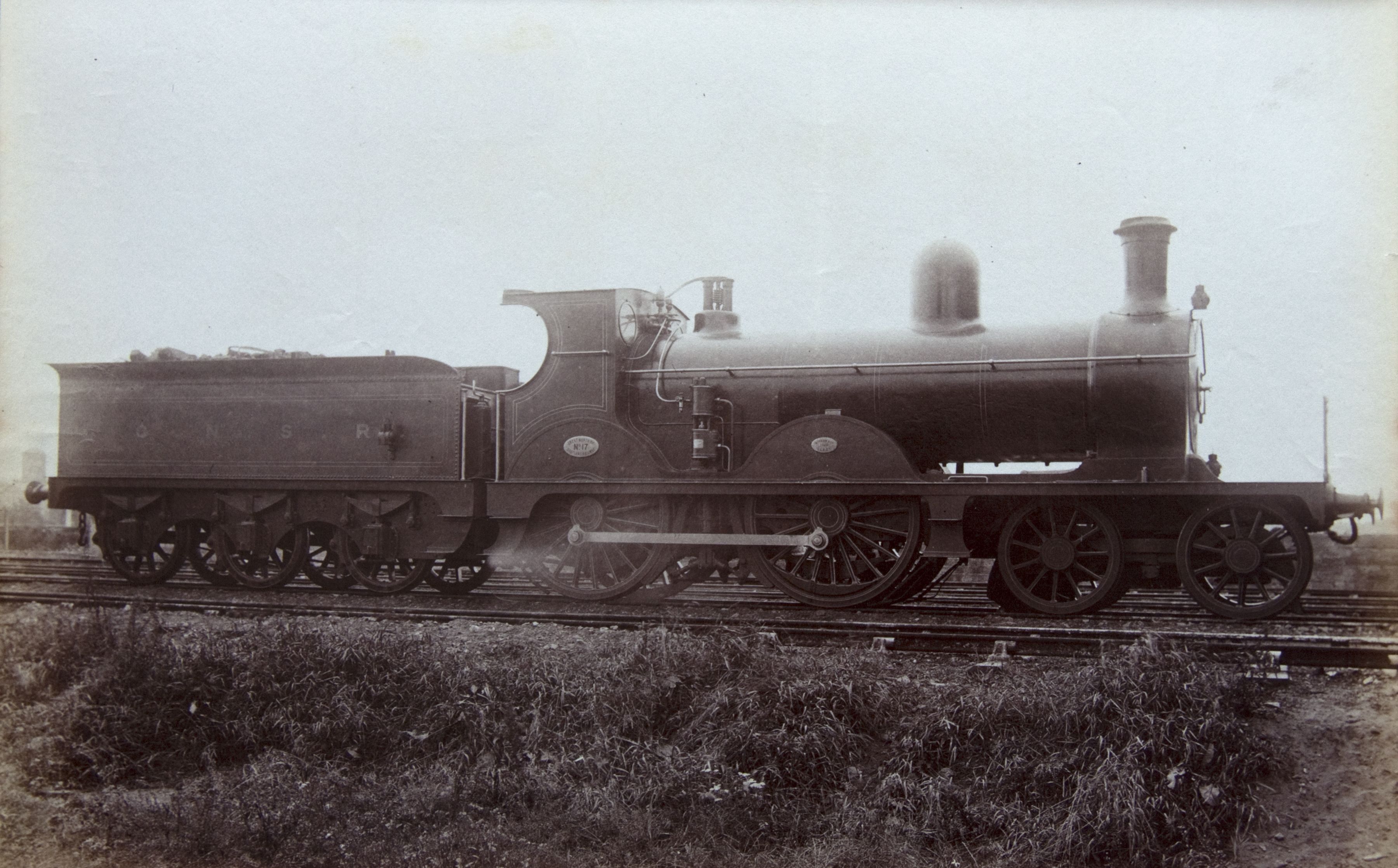 One of 9 'O' class GNSR 4-4-0 locomotives built in 1888. They became LNER class D42 locomotives and this engine may not have been withdrawn until 1946. This photo was taken from an old original photo we came across while helping to clear the house of a deceased friend. I have uploaded it to Flickr in the hope that it might be interesting to steam enthusiasts.